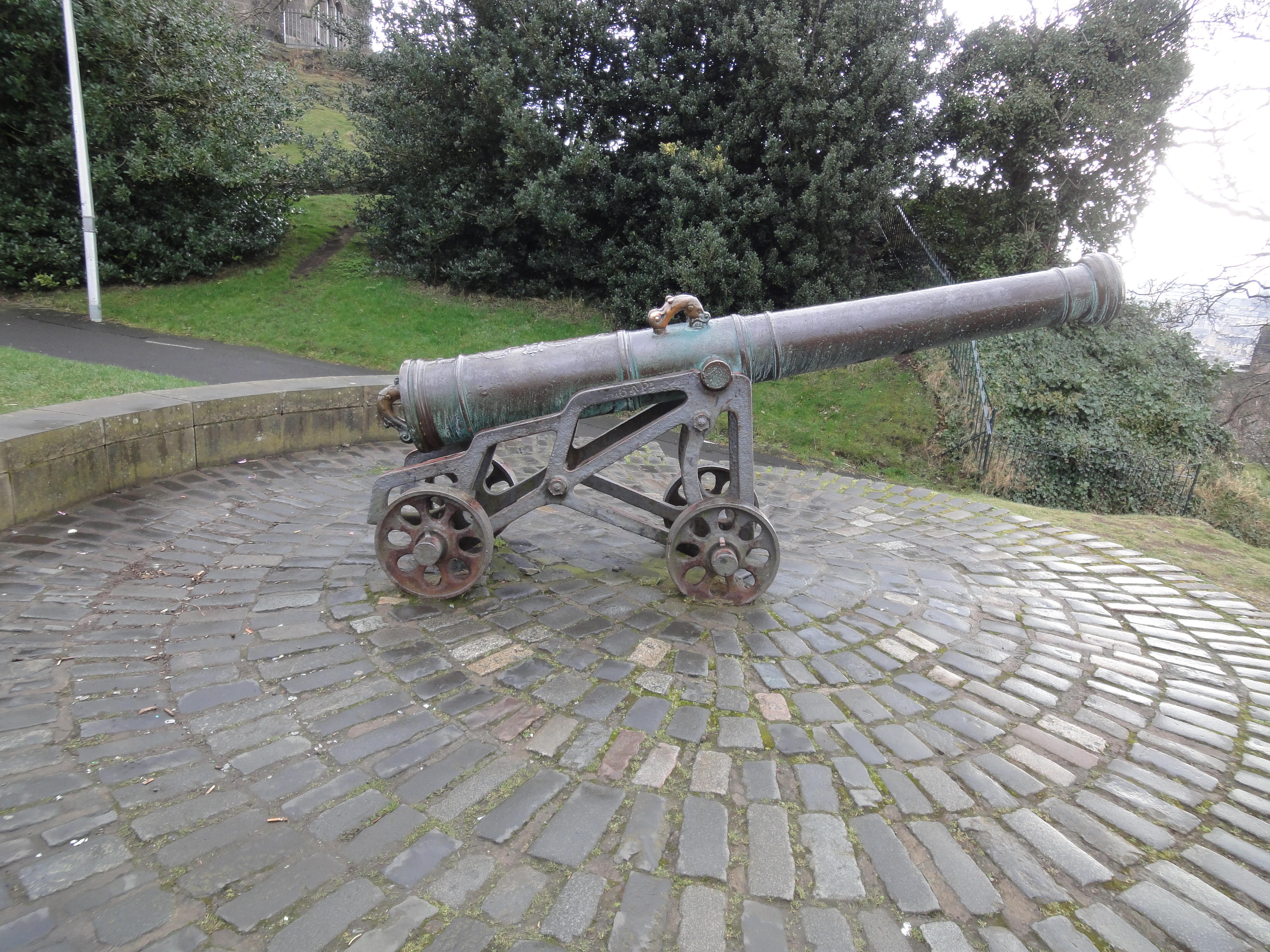 The Portuguese Cannon on Calton Hill, Edinburgh